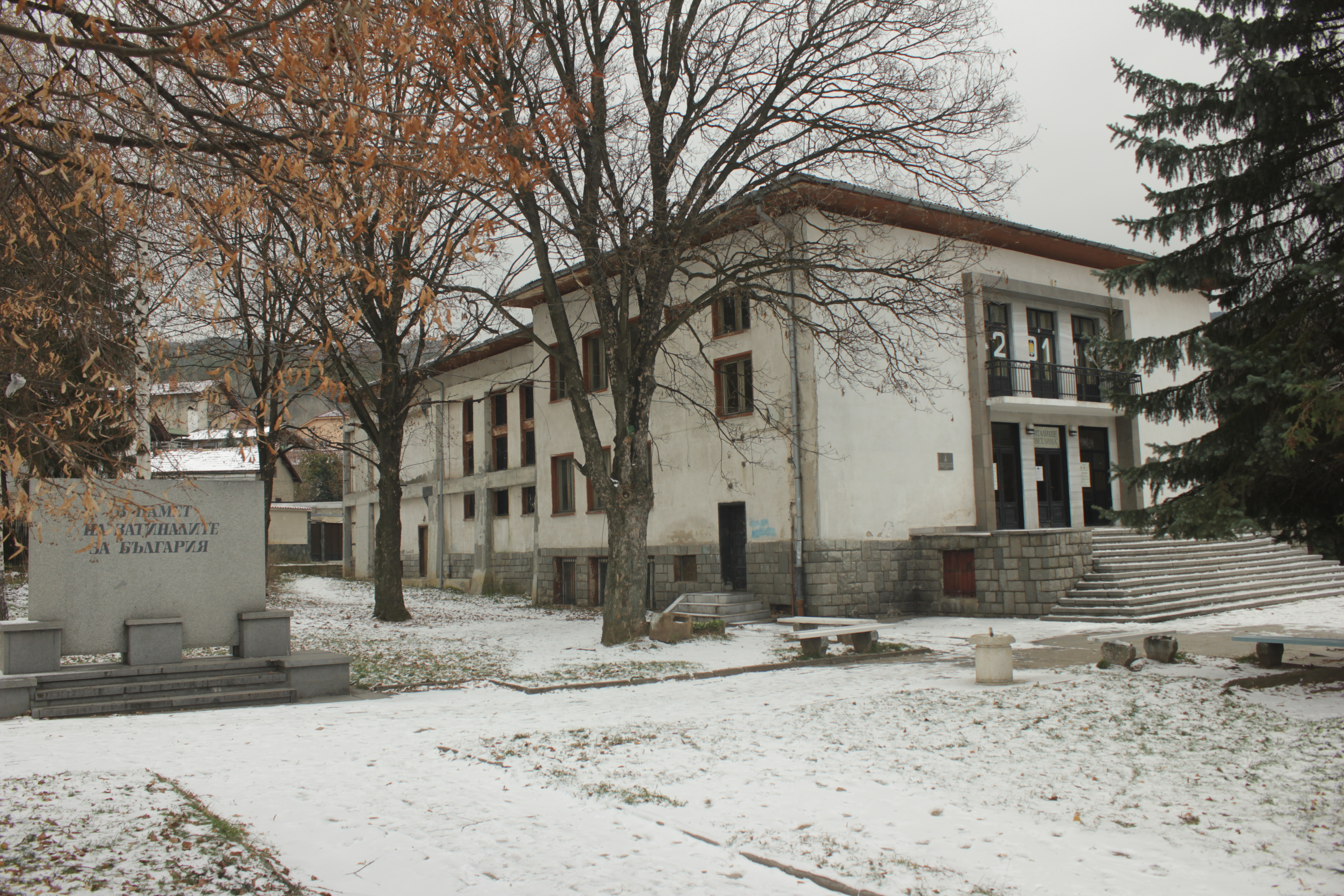 War Memorial and Culture club in Vladaya